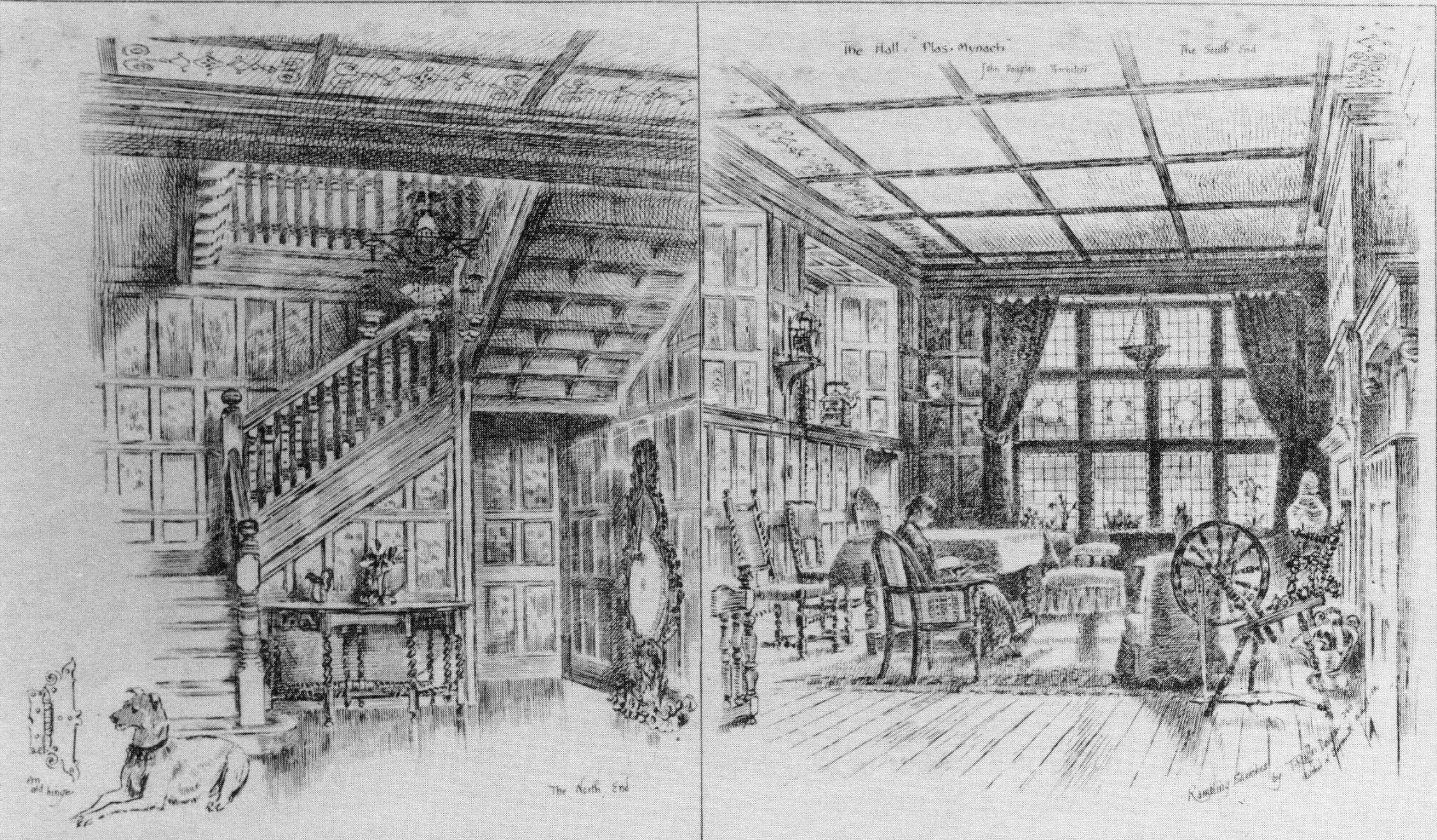 Scanned by the book by me. Shows the staircase on the left and the hall on the right. Taken from British Architect, 21, 1884, p. 242